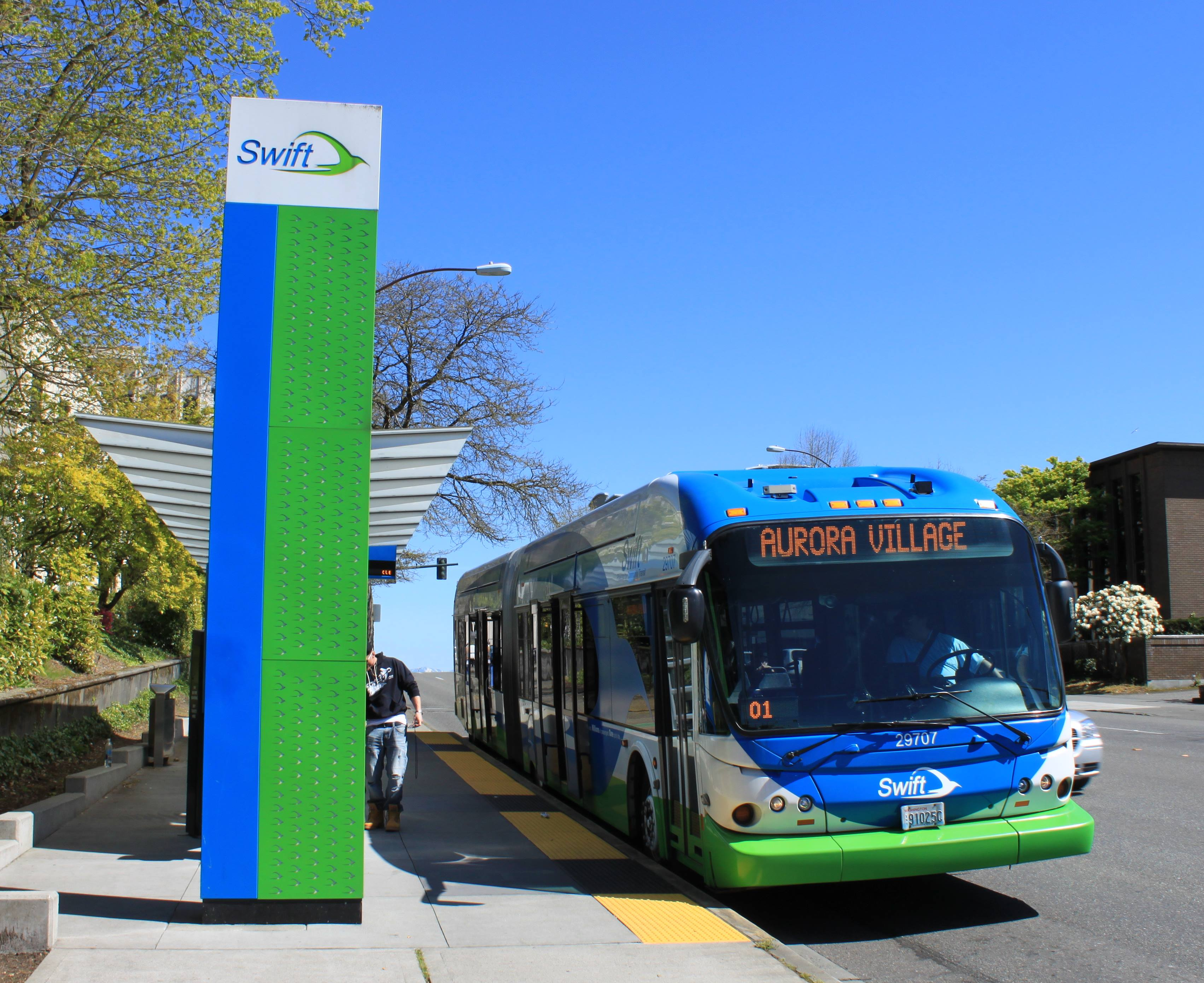 A Swift BRT bus stopped at the Wetmore Avenue Station, headed southbound towards Aurora Village TC.